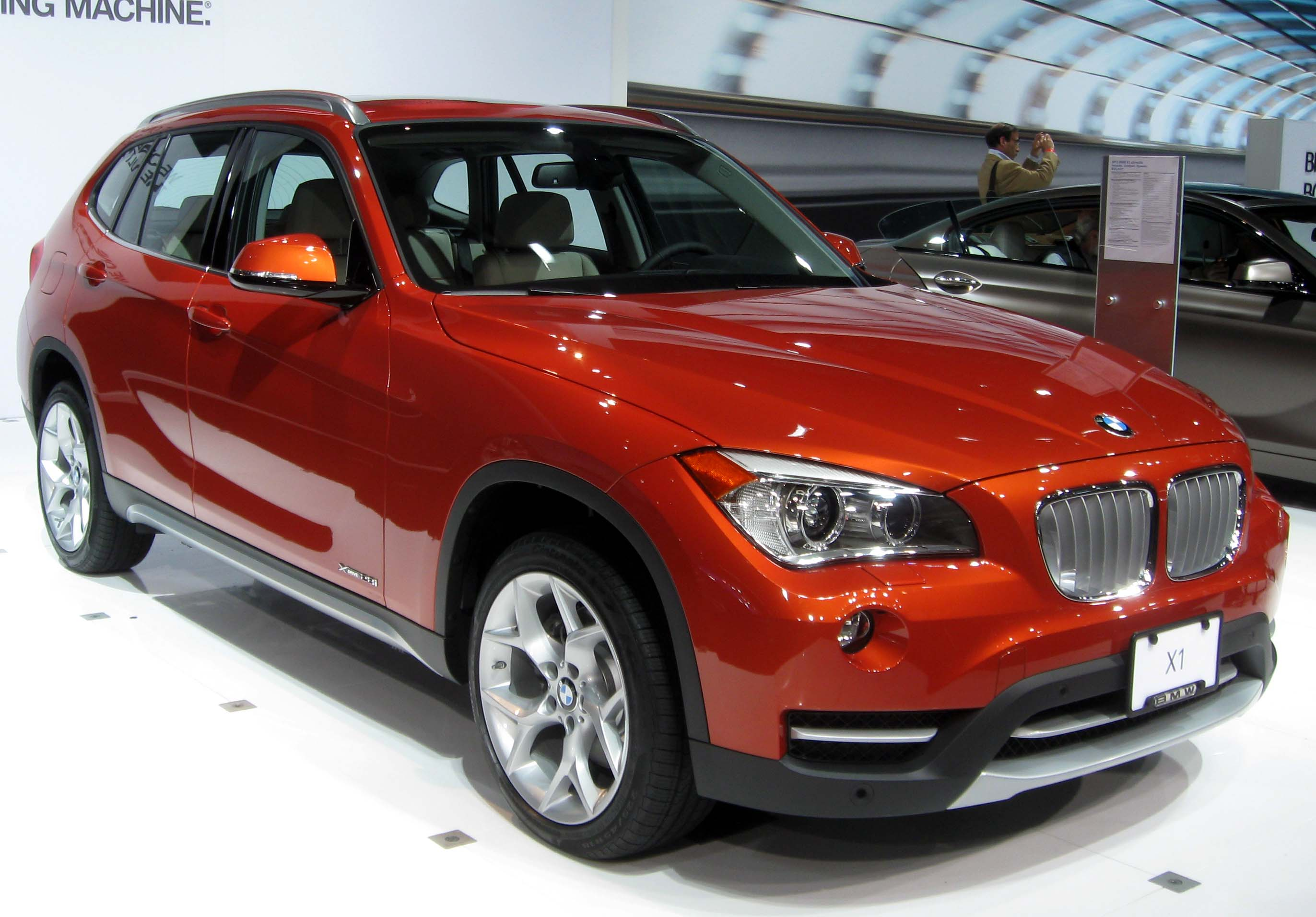 2013 BMW X1 photographed at the 2012 New York International Auto Show.